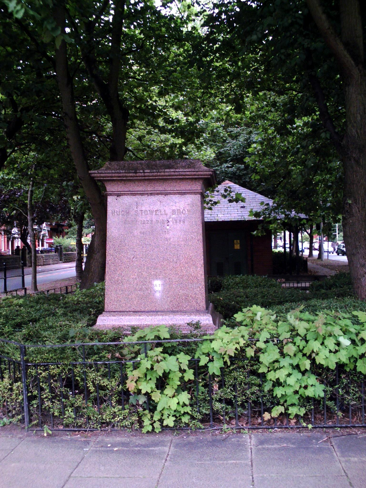 The statue which used to be atop this plinth is apparently lying round in some yard. The whole thing is Grade II listed and should get the attention it deserves.